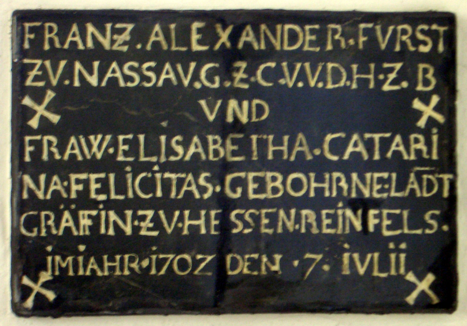 Founder´s Inscription in Hadamar-Steinbach Chapel